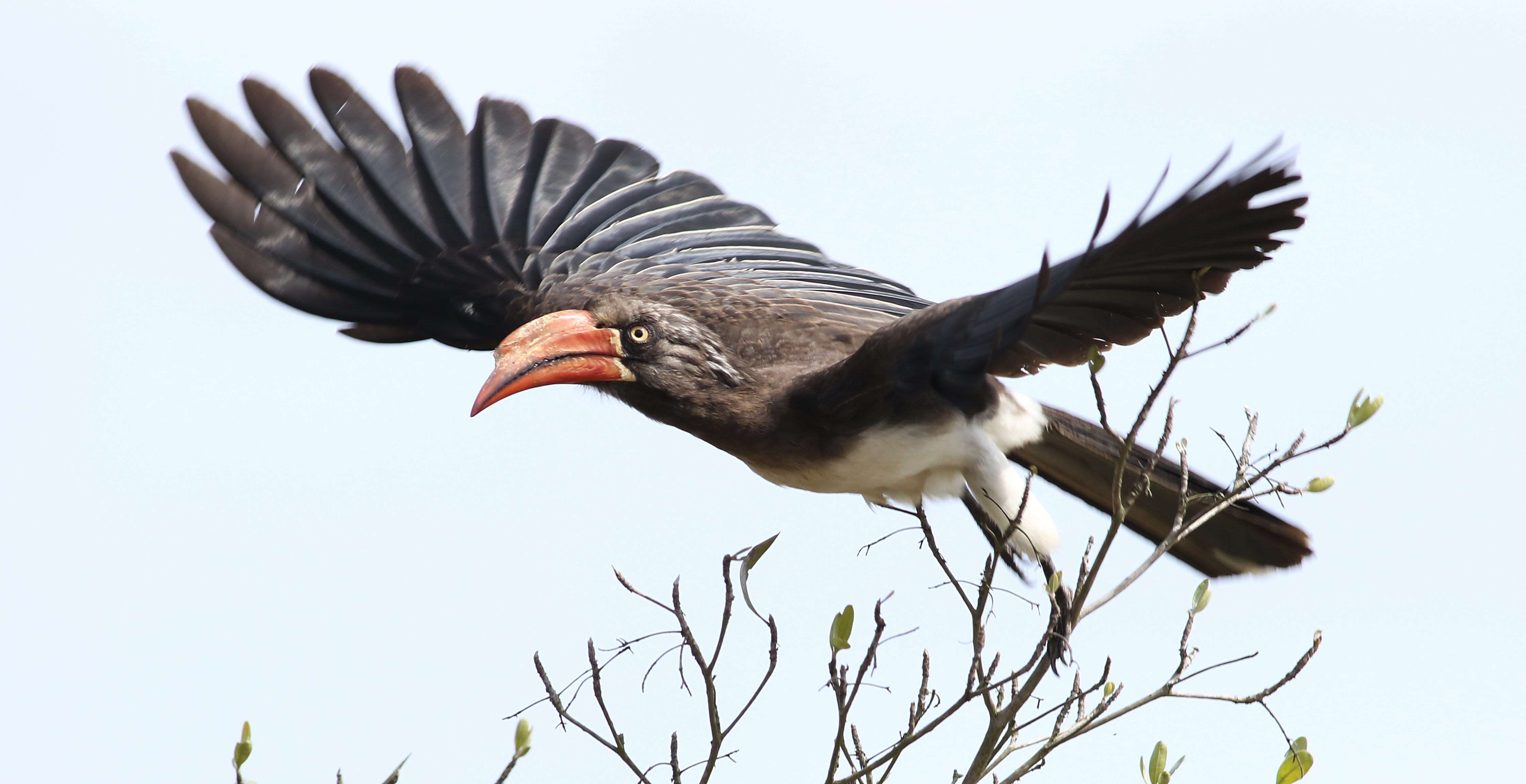 Crowned hornbill, Tockus alboterminatus, at Ndumo Nature Reserve, KwaZulu-Natal, South Africa